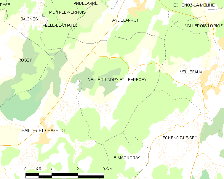 Map of French municipality